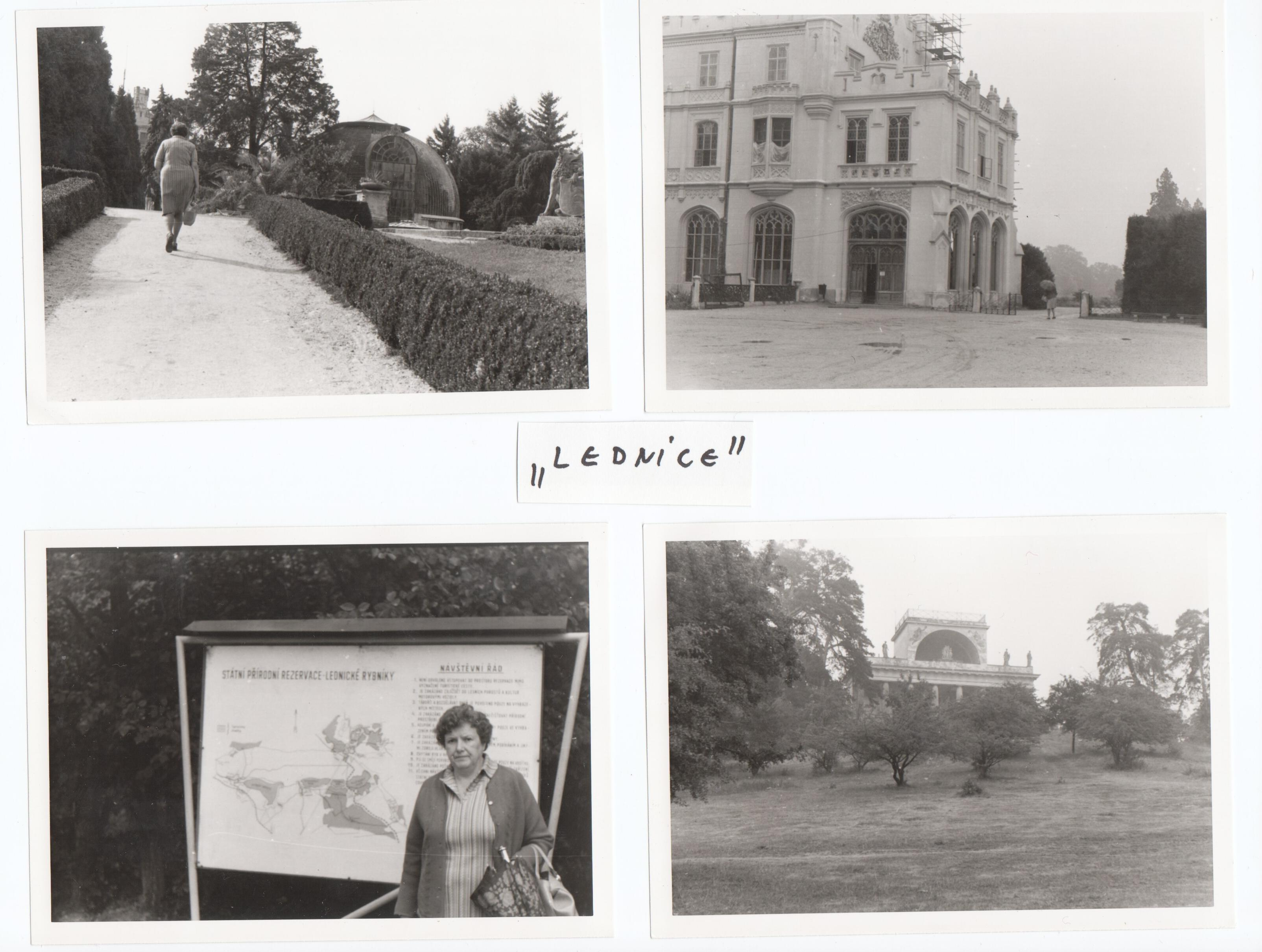 This is collection photographs from Czechoslovakia, largely from second halves 20. century. You may be soever sculpture and use according to his discretion.